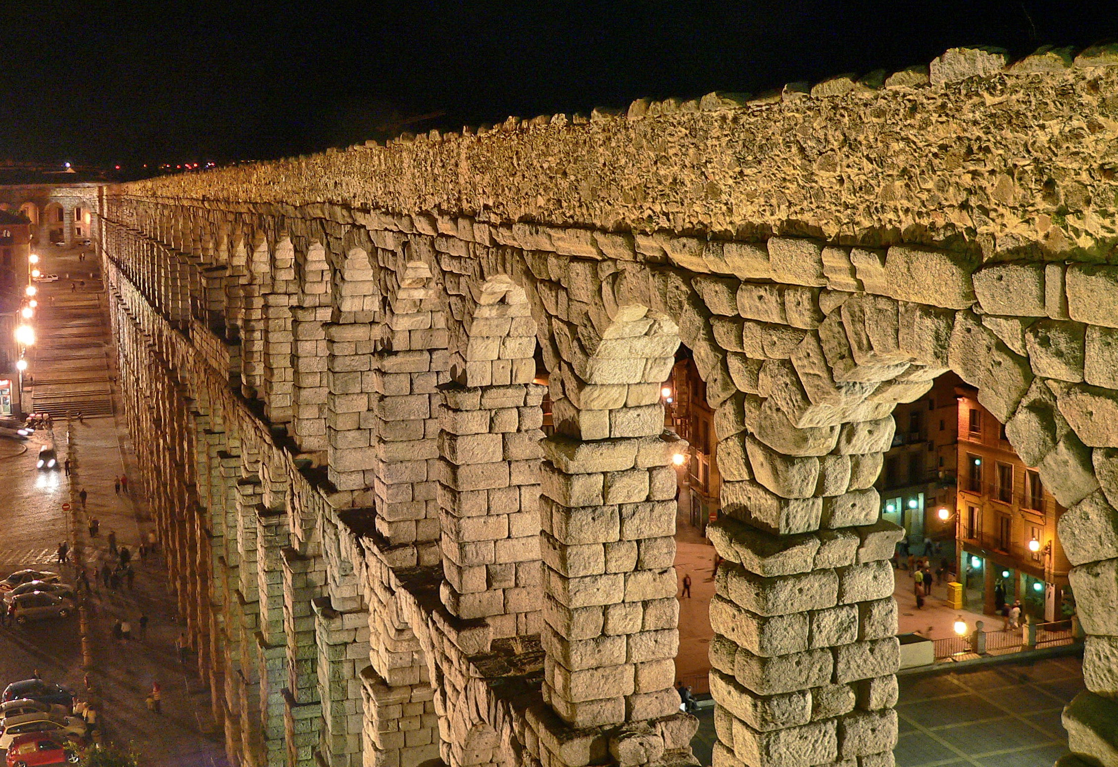 Night view of the Aqueduct of Segovia